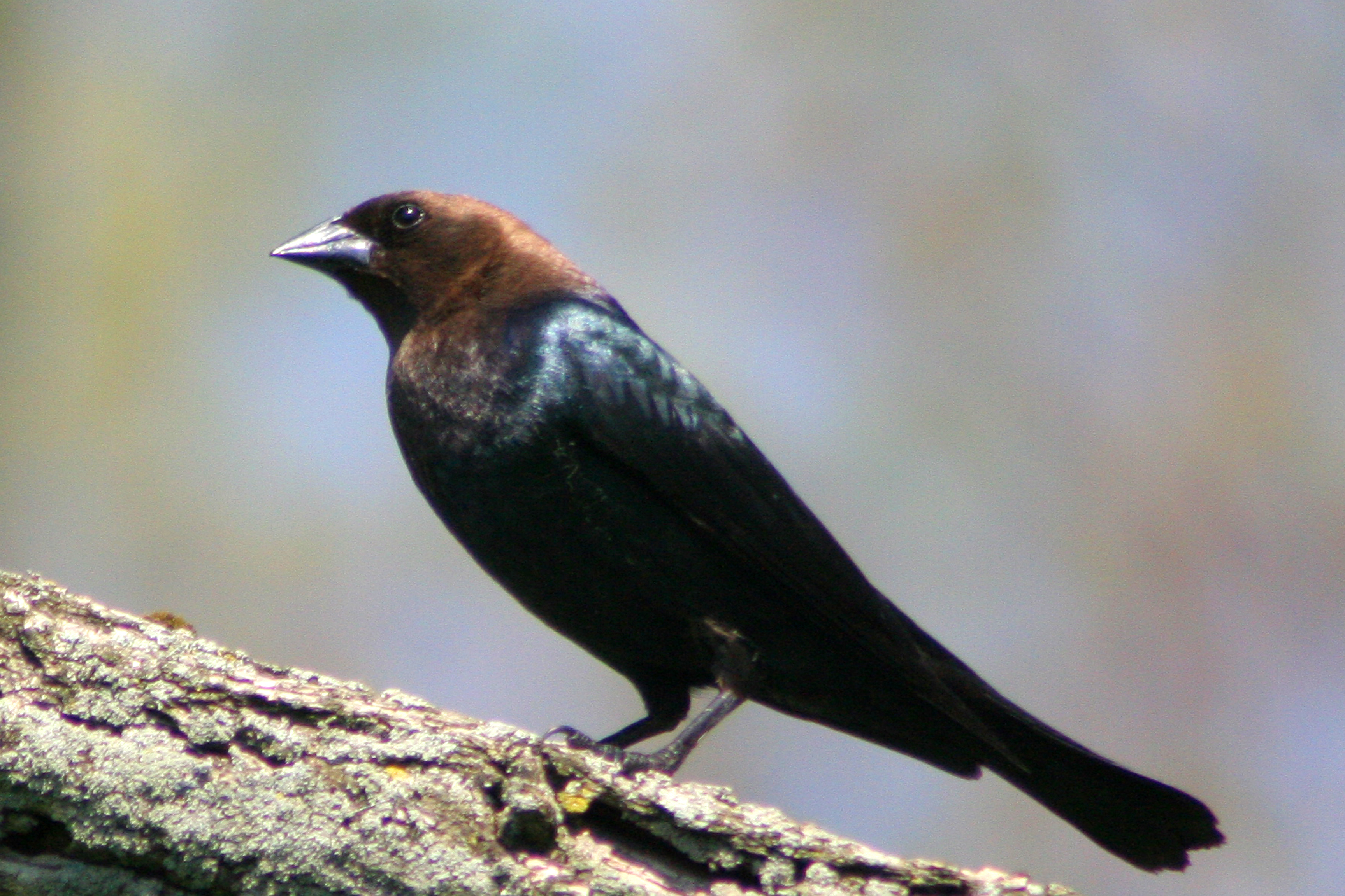 Molothrus ater Brown-headed Cowbird